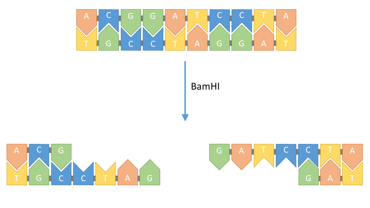 Restriction of DNA by BamHI enzyme. The enzyme cuts the DNA at the sequence GGATCC and leaves 'sticky ends' that can attach to complementary sticky ends.